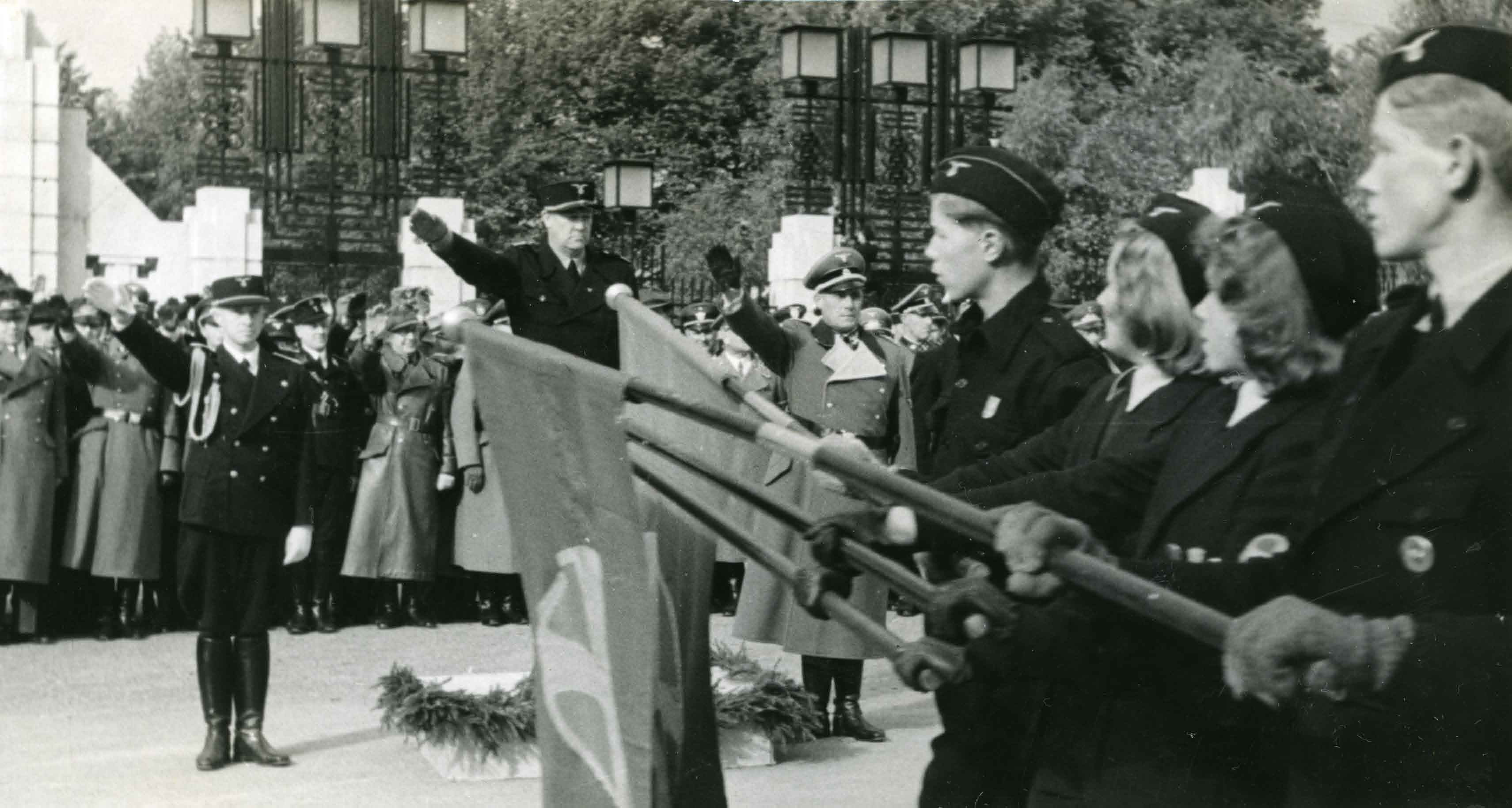 September 1942, fotograf: NS Presse- og propagandavdeling. Billed og filmkontoret. RA/PA-0781/Fa/0001/0003 1136 NS holdt til sammen 7 partilandsmøter i 30-årene, men i løpet av perioden 1940-1945 ble det holdt bare ett riksmøte, 8. riksmøte i Oslo 26.-27.09.1942. Anslagsvis 10 000 deltagere fra hele landet samlet seg i hovedstaden til dette partimøtet. Det rikholdige programmet omfattet blant annet store parader der både arbeidstjeneste, kvinner, SS, NSUF, ung- og småhird defilerte, og i Frognerparken ble det holdt en stor minnemarkering for de falne. Avslutningsarrangementet fant sted på Bislet stadion. NS (the Norwegian Fascist party) held a total of seven party congresses in the 30s, but during the period 1940-1945 there was just one national meeting, the 8th national meeting in Oslo on September 26th and 27th 1942. An estimated 10,000 participants from across the country gathered in the capital for this party meeting. The extensive program included the major parades in which both labor service, women, SS, NSUF, and young party members paraded. There was a large memorial ceremony for the fallen in the Vigeland Park. The closing ceremony took place at Bislett Stadium.